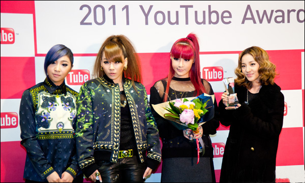 2NE1. Photo from 211 YouTube Award cermony.